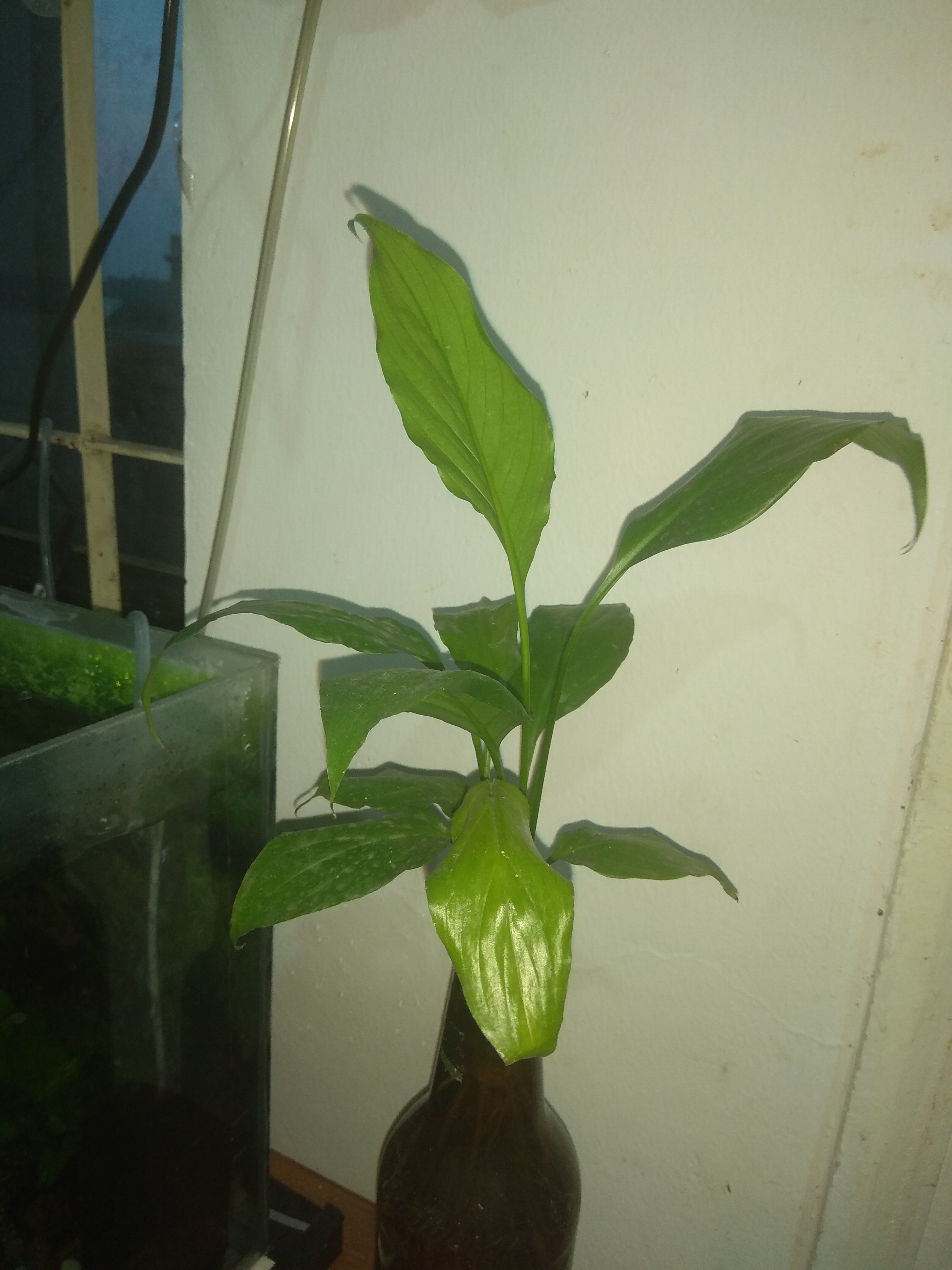 Spathiphyllum wallisii, commonly known as peace lily, white sails, or spathe flower is a very popular indoor house plant of the family Araceae. The genus name means "spathe-leaf", and the specific epithet is named after Gustav Wallis, the German plant collector. Like Money plant aka Pothos Peace Lilly can also be grown hydroponically with roots in water and leaves emersed.